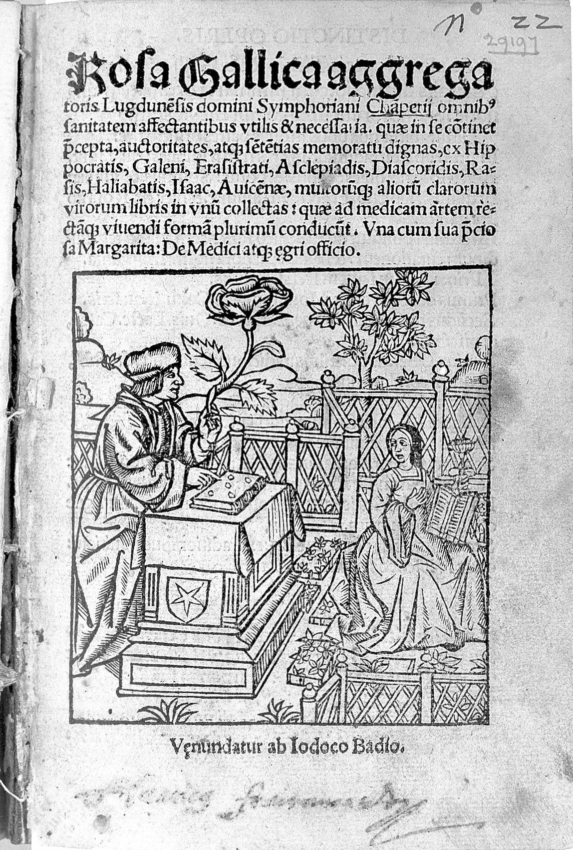 Champier holding the gallic rose.